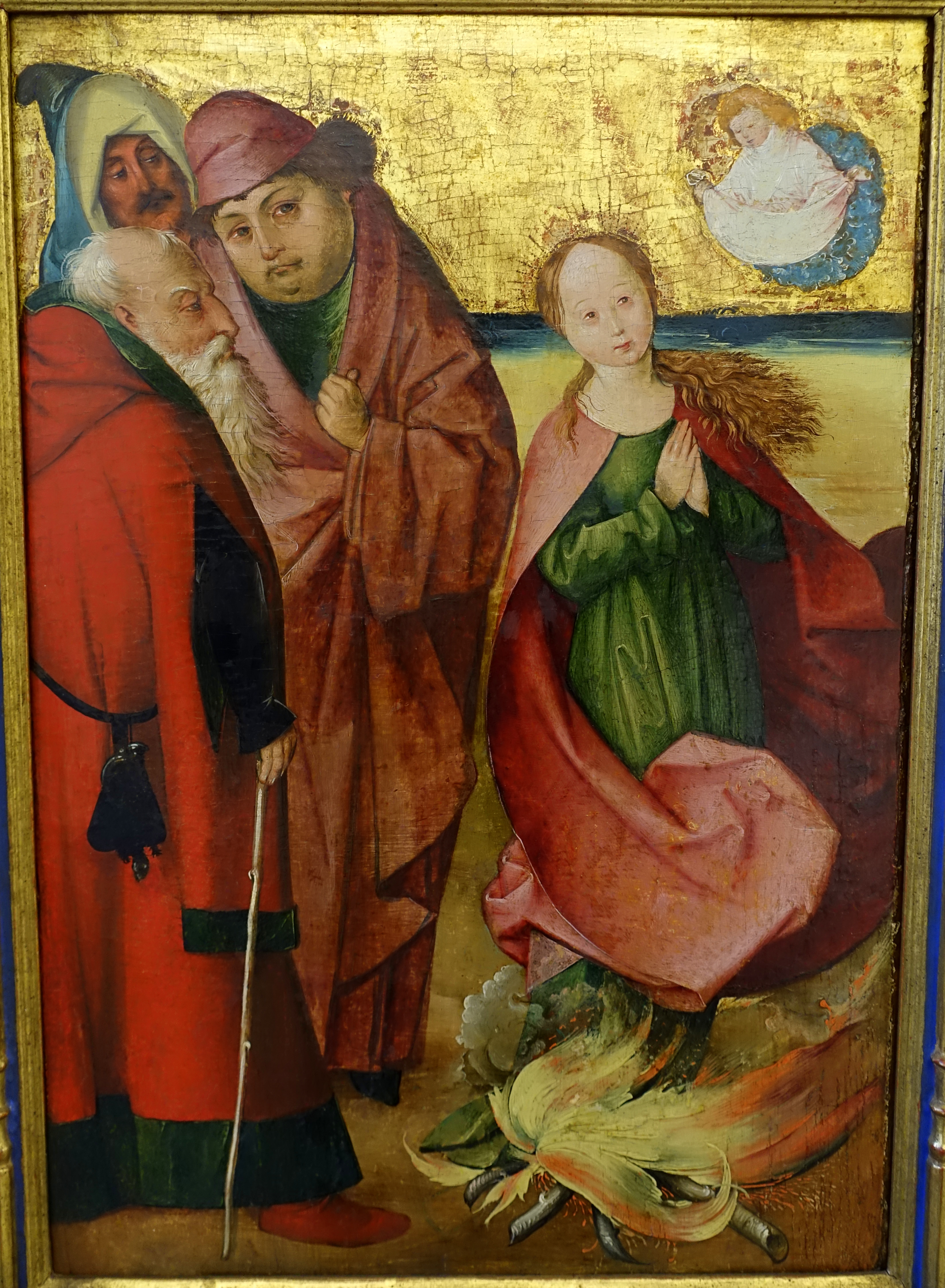 Exhibit in the Germanisches Nationalmuseum - Nuremberg, Germany.